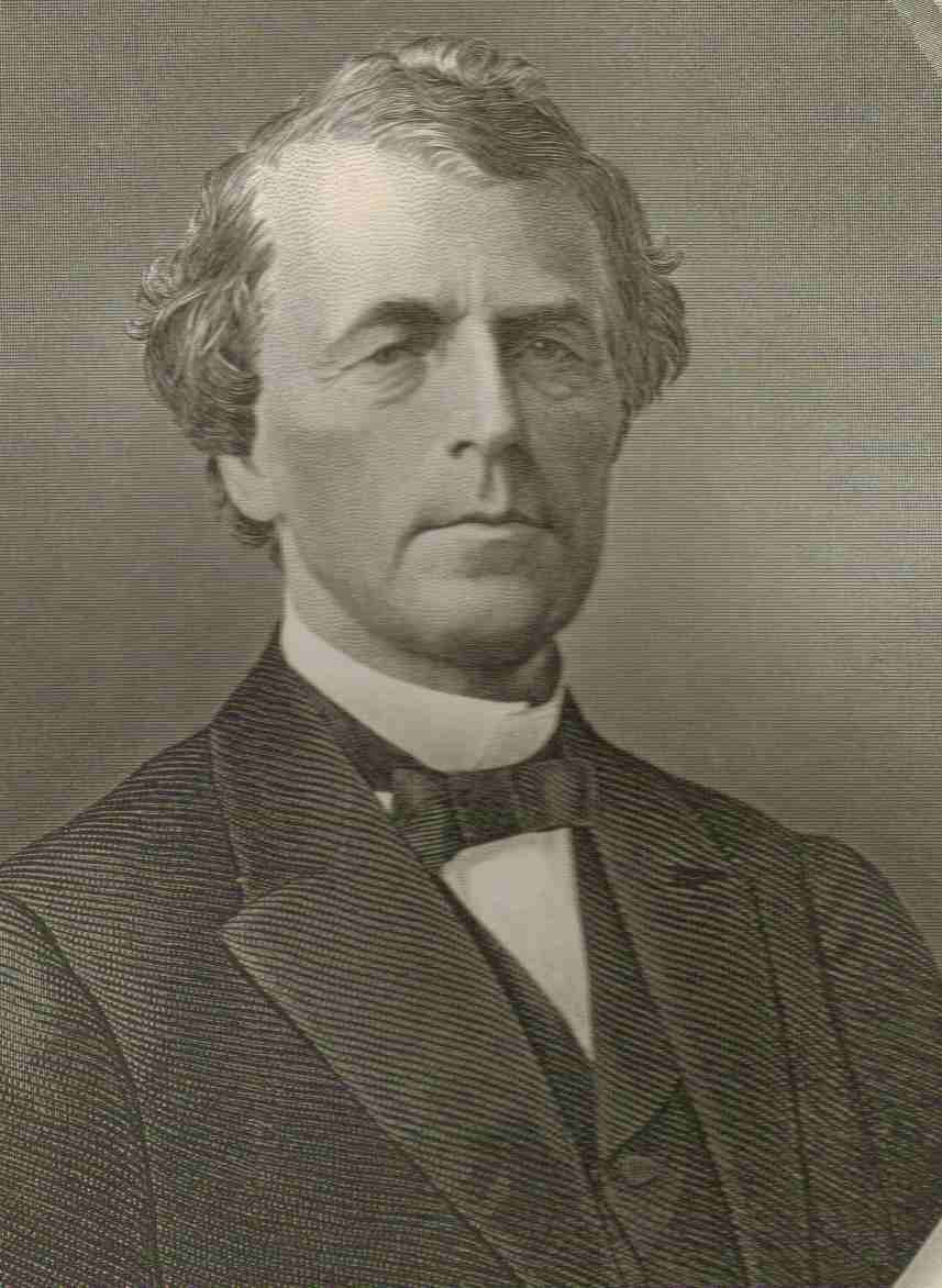 Rev Luke Hitchcock (1813-1898), Methodist Episcopal Church, grandson of Thomas Ingersoll, son of Julius and Myra (Ingersoll) Hitchcock